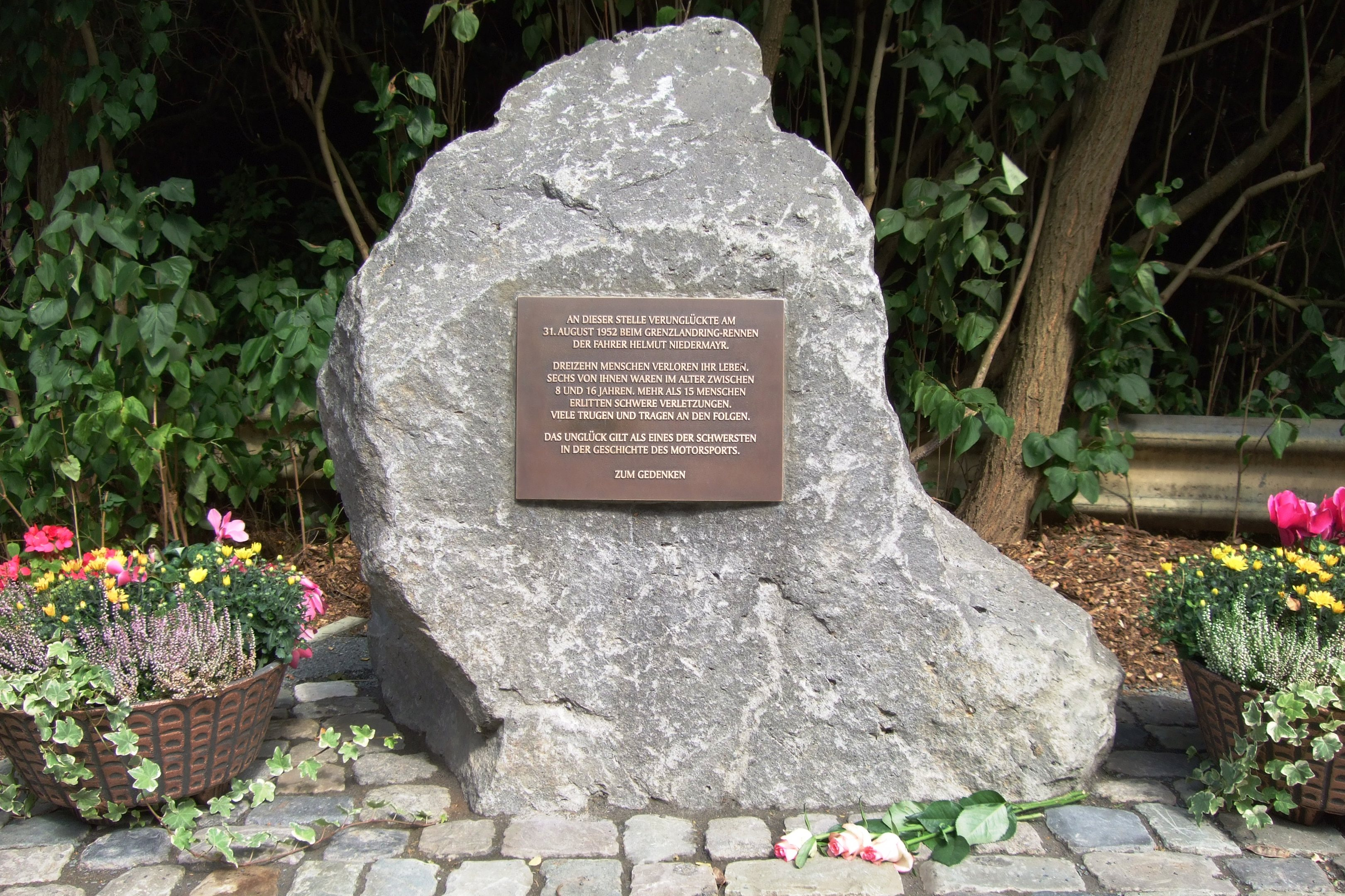 2012 memorial stone for the 1952 Helmut Niedermayr accident at the former racing track Grenzlandring at Wegberg in Germany.